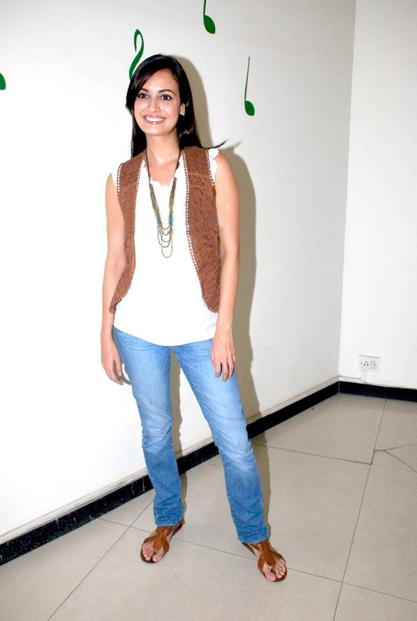 Diya Mirza promotes Love Breakups Zindagi at 98.3 FM Radio Mirchi